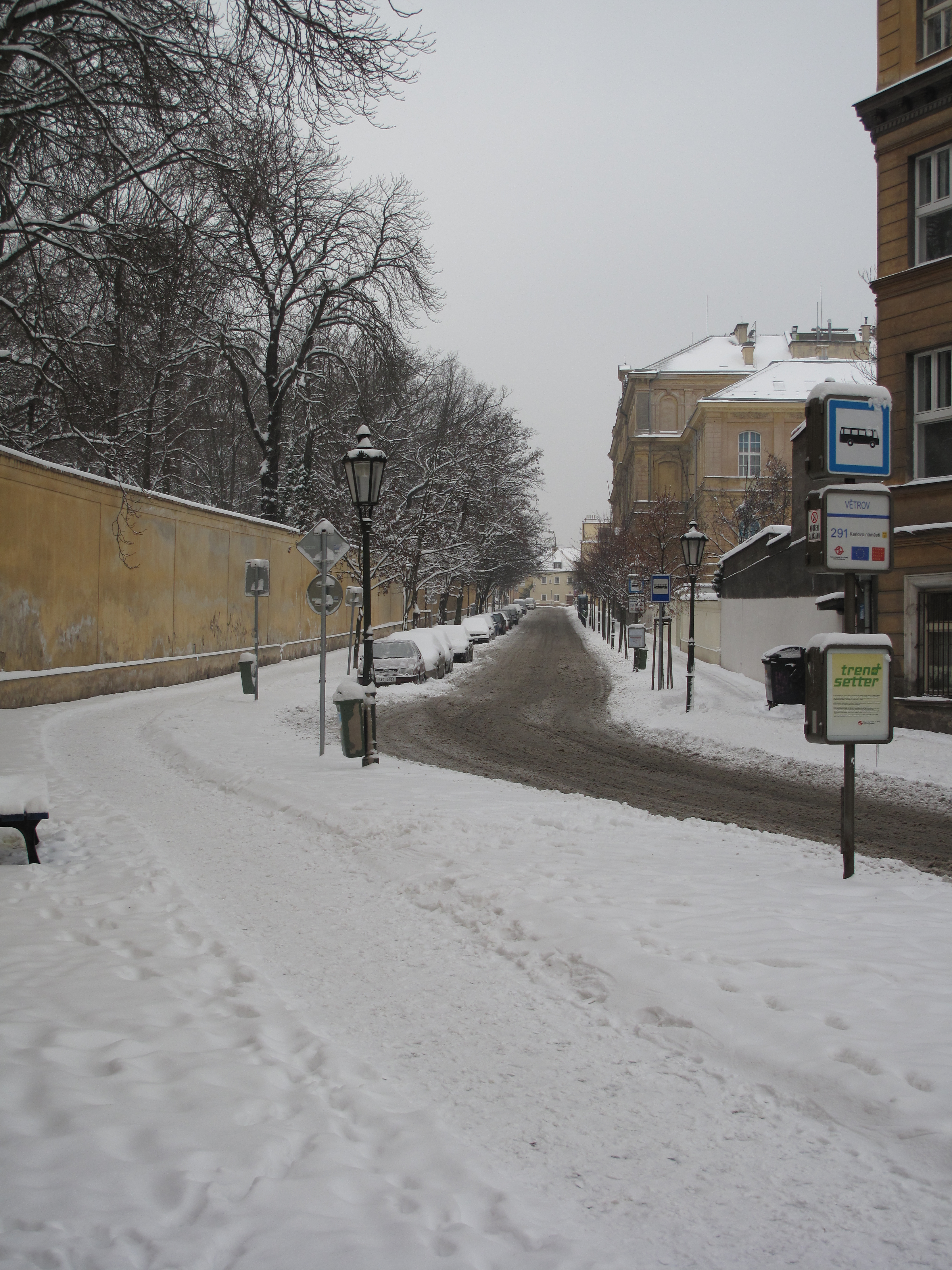 Prague 2 - New Town, Czech Republic.